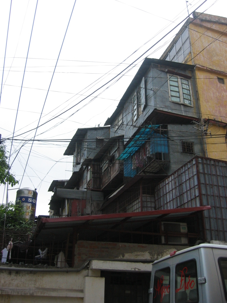 An old apartment building in Hanoi, Vietnam